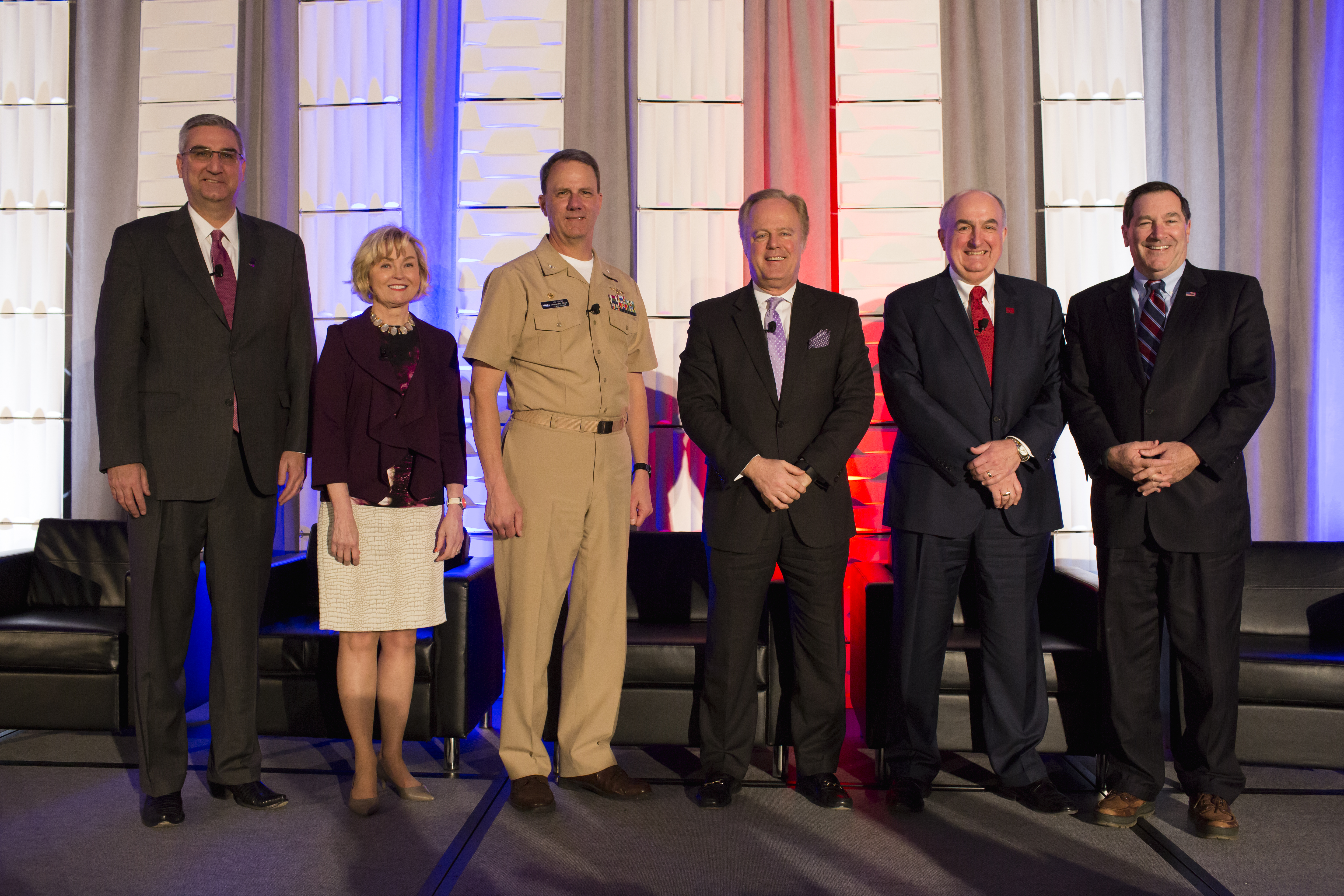 Former Indiana Lt. Gov. Eric Holcomb, left, Radius Indiana President/CEO Becky Skillman, Crane Naval Base Commander Capt. Jeffrey "JT" Elder, Inside INdiana Business Creator and Host Gerry Dick, Indiana University President Michael A. McRobbie and U.S. Sen. Joe Donnelly pose for a group photo before an event celebrating grants given to the Southwest Central Indiana region on Friday, March 4, 2016, in Odon, Indiana. Lilly Endowment Inc. has awarded three grants totaling $42 million to organizations in the region. The grants will support regional development initiatives in an 11-county area that encompasses Brown, Crawford, Daviess, Dubois, Greene, Lawrence, Martin, Monroe, Orange, Owen and Washington counties.